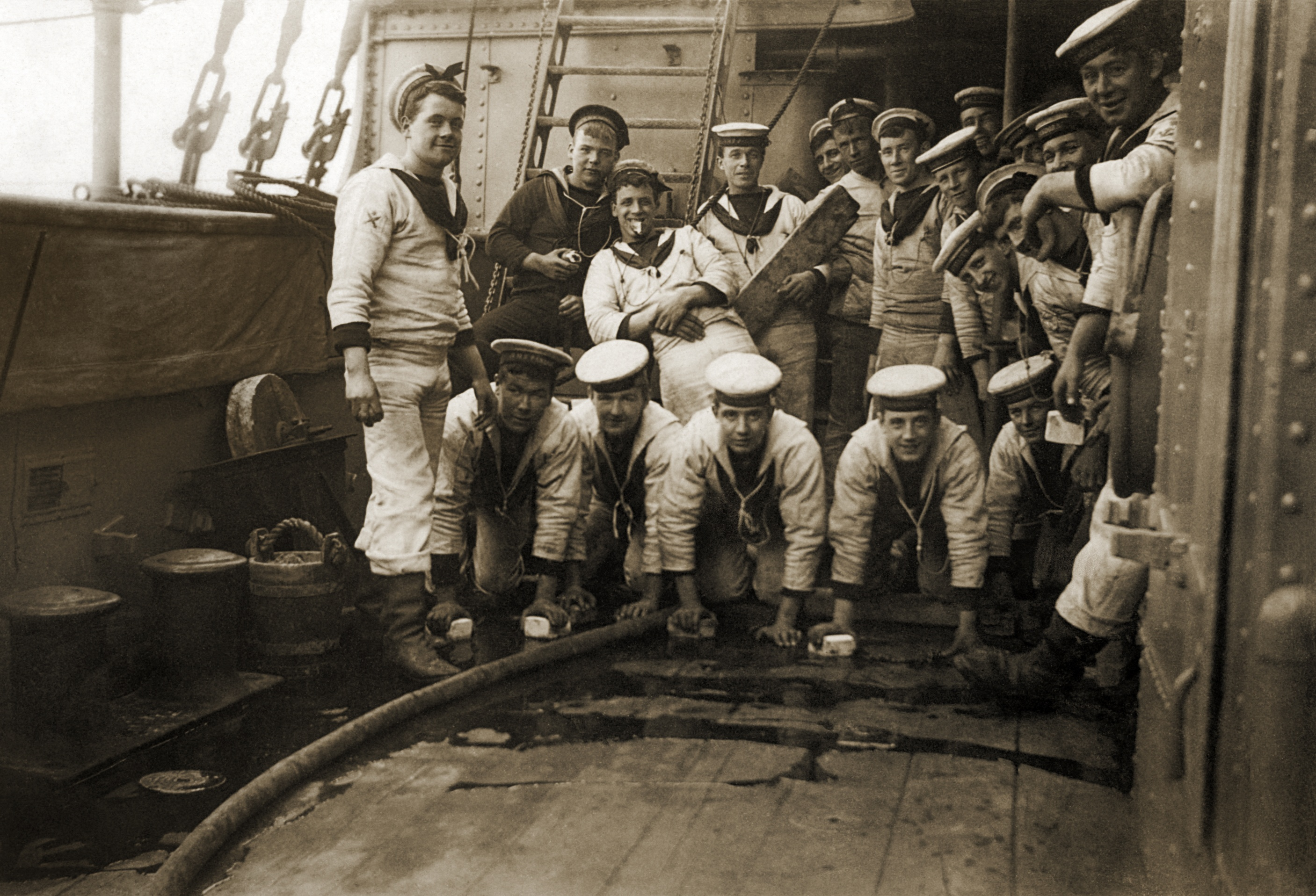 This photograph shows five sailors kneeling with holystones, surrounded by 14 other sailors, all obviously posing for the camera. According to the handwritten text on the album sheet to which the photograph is affixed this is "HM.S. Pandora. Holy stoning the deck". There is no information as to who the photographer may be, and considering that the photograph must have been taken before 1913 (the date HMS Pandora was scrapped), it is unlikely that he/she can now be identified.